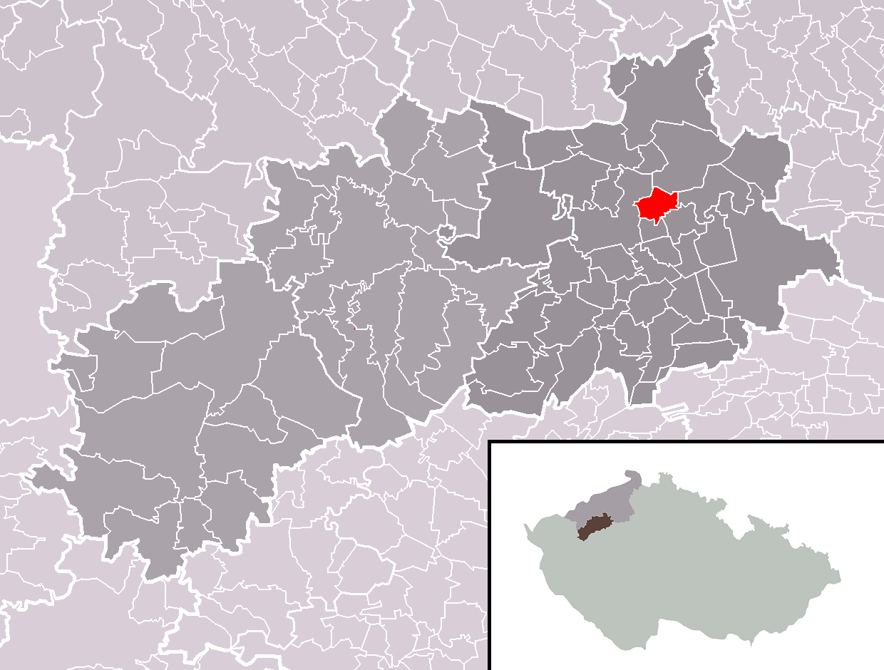 Location of Vršovice municipality within Louny District and administrative area of Louny as a Municipality with Extended Competence.